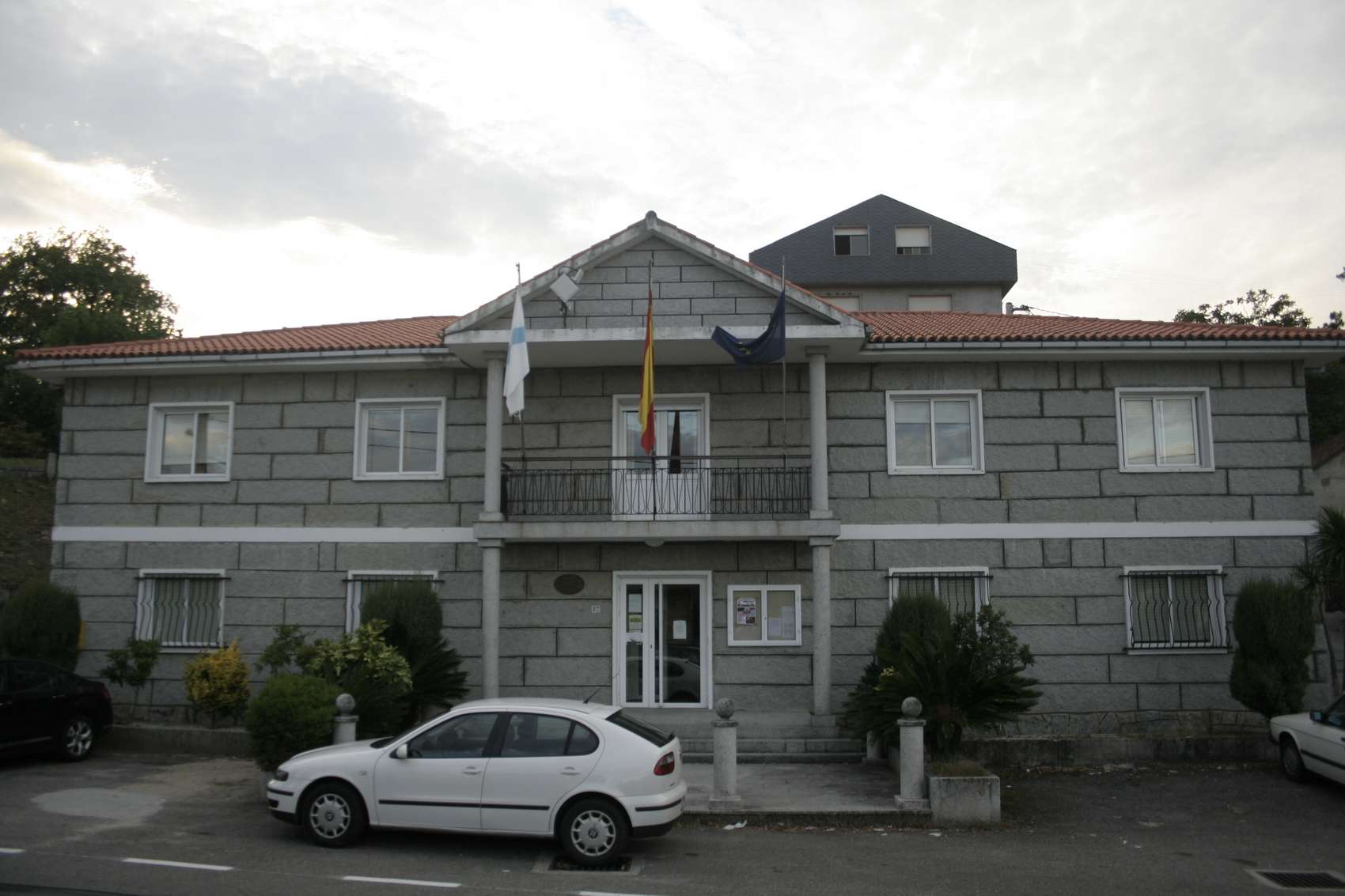 Town Hall in Padrenda (Spain)